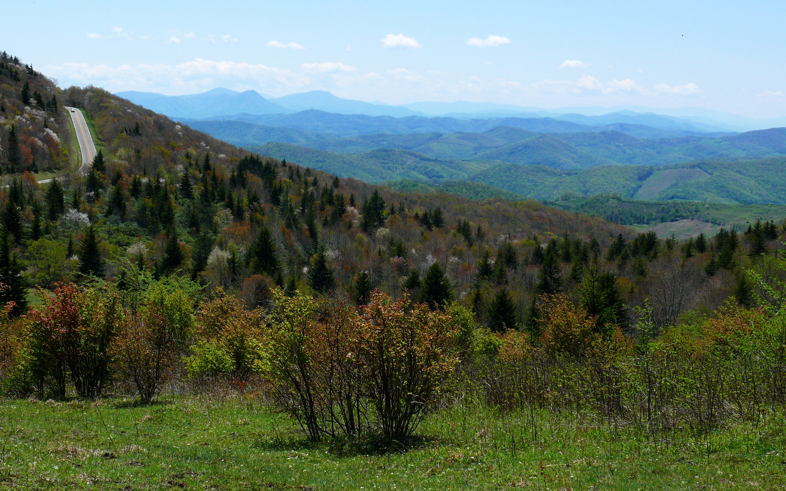 Looking west from Rhododendron Trail on Wilburn Ridge in Grayson Highlands State Park. Photo taken with a Panasonic Lumix DMC-FZ50 in Grayson County, VA, USA. Cropping and post-processing performed with The GIMP.